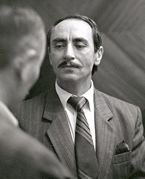 Djohar Dudaev, Ichkeria 1991–1996 president, in 1991.